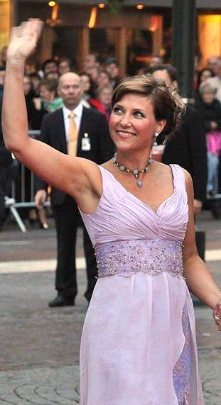 Wedding of Victoria, Crown Princess of Sweden, and Daniel Westling; Arrival of members for the Gouvernment and Swedish and foreign guests of hounour to the Riksdag's Gala Performance at Konserthuset